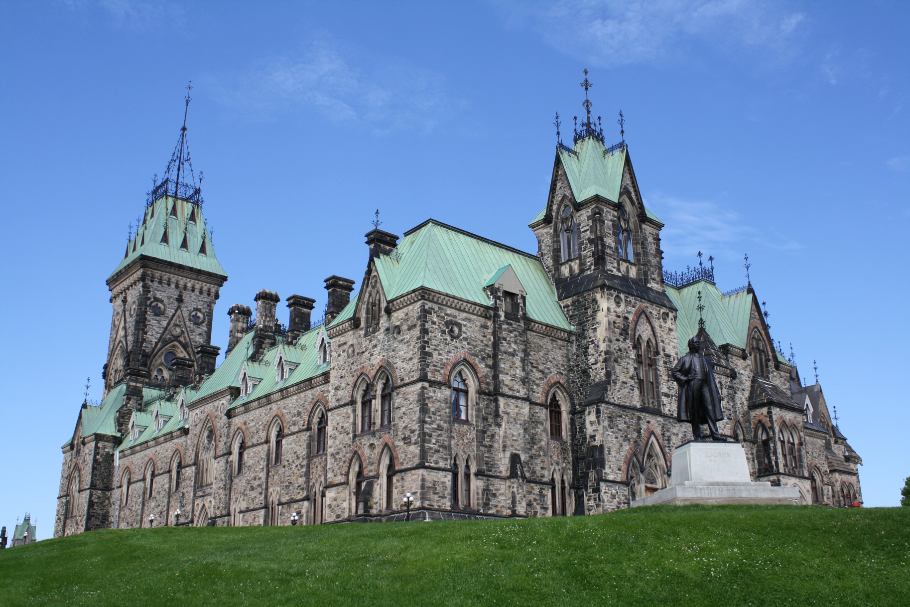 The rear view of the East Block of Parliament Hill (Ottawa, Canada), taken on July 4th, 2010.